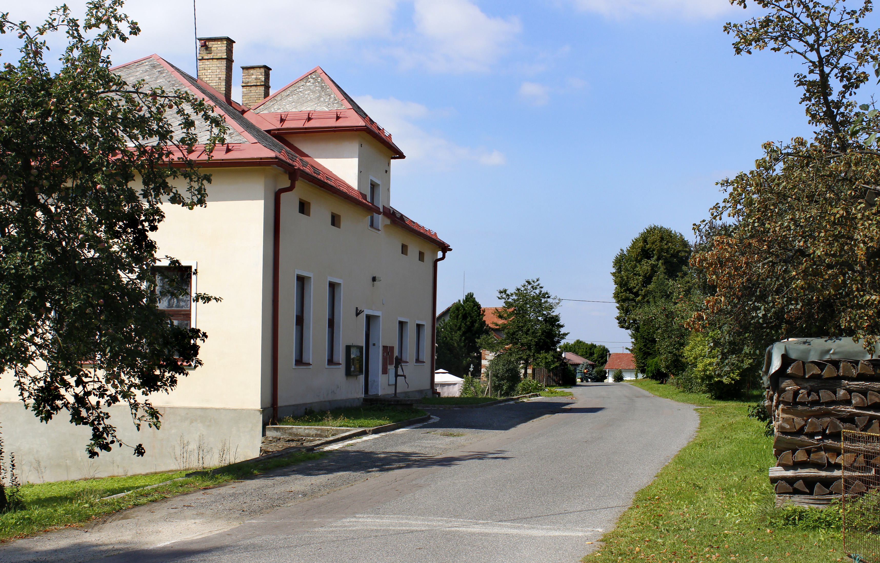 South part of Hlinné, part of Dobré village, Czech Republic